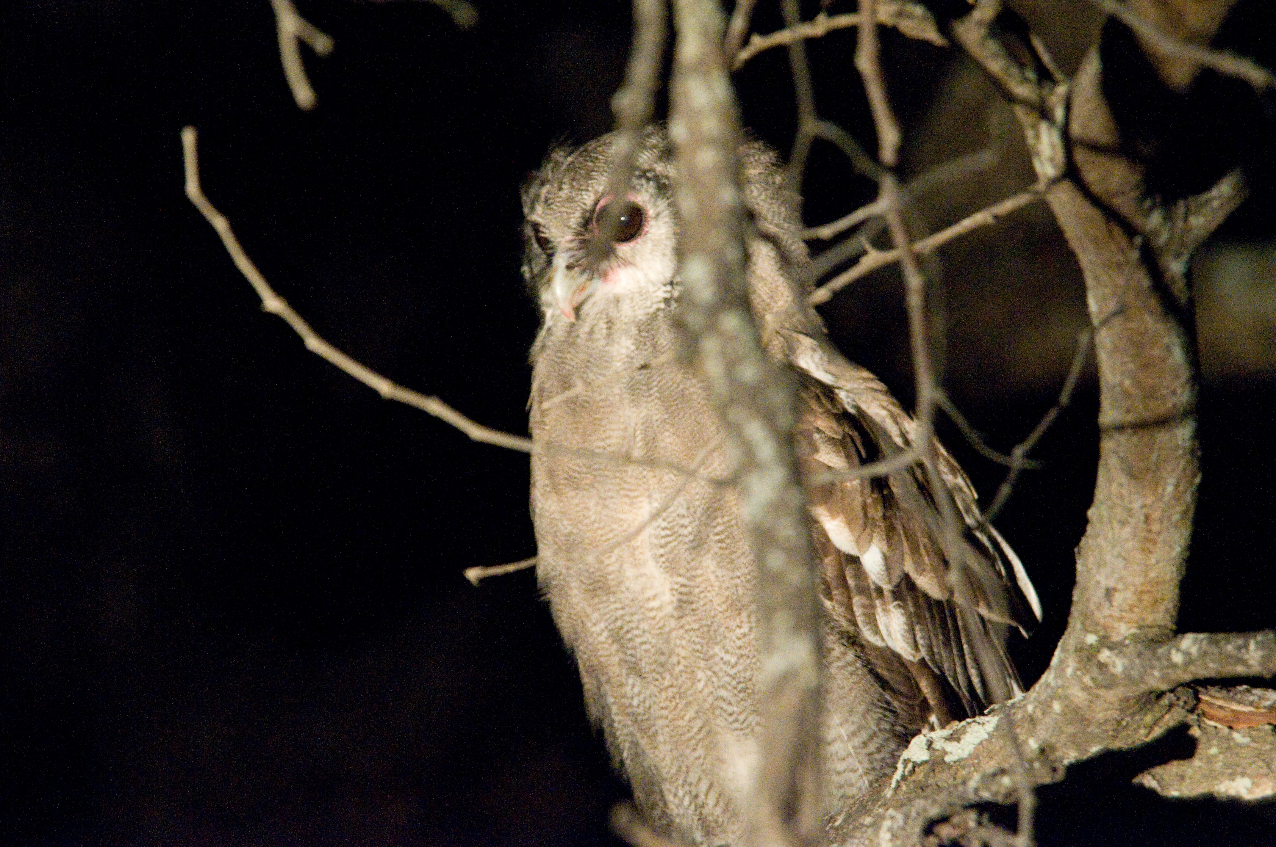 Verreaux's Eagle-owl (Bubo lacteus) spotlighted at night. Dysmorodrepanis 01:20, 29 May 2008 (UTC)